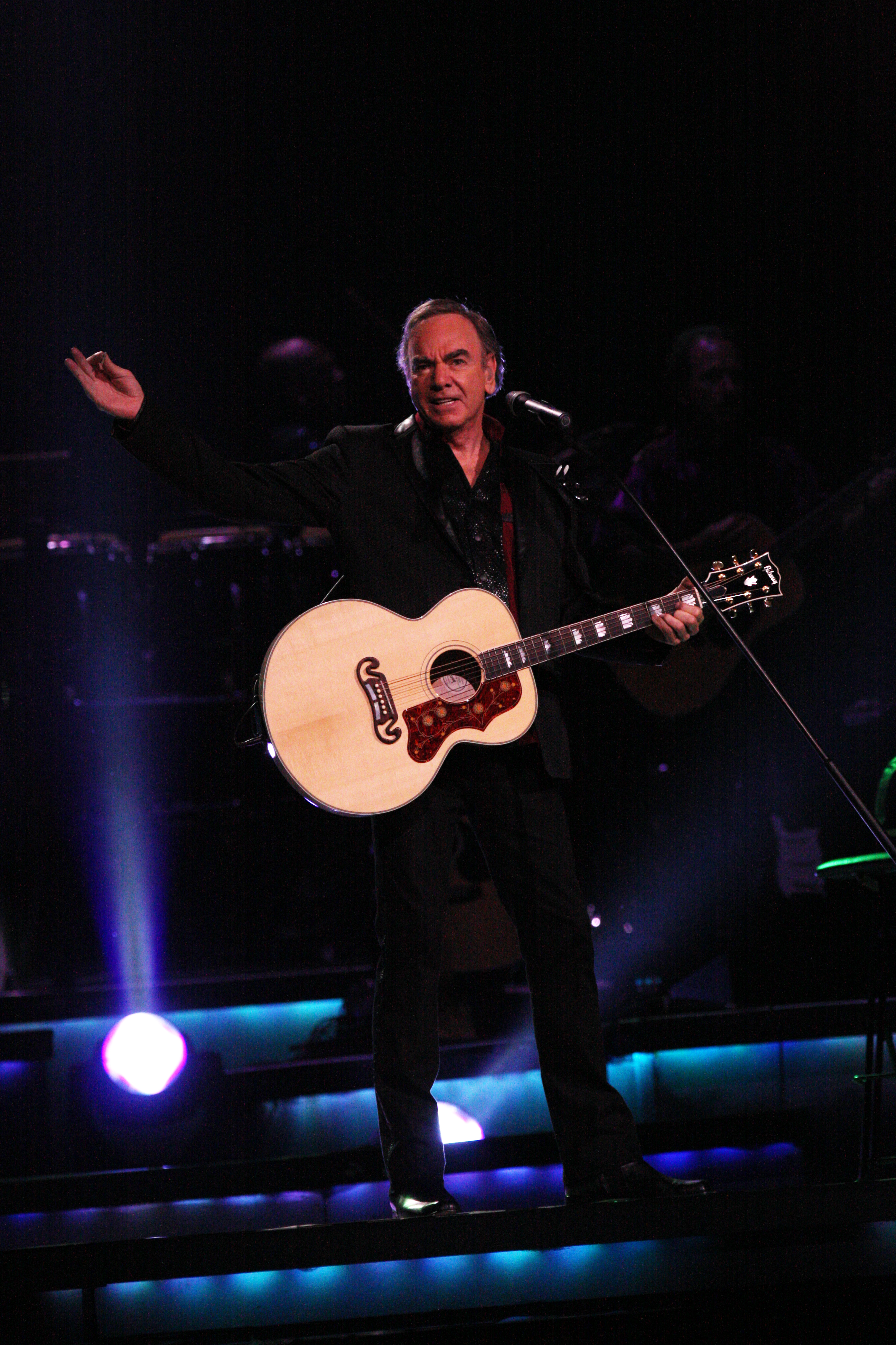 Neil Diamond Sparkles At Acer Arena